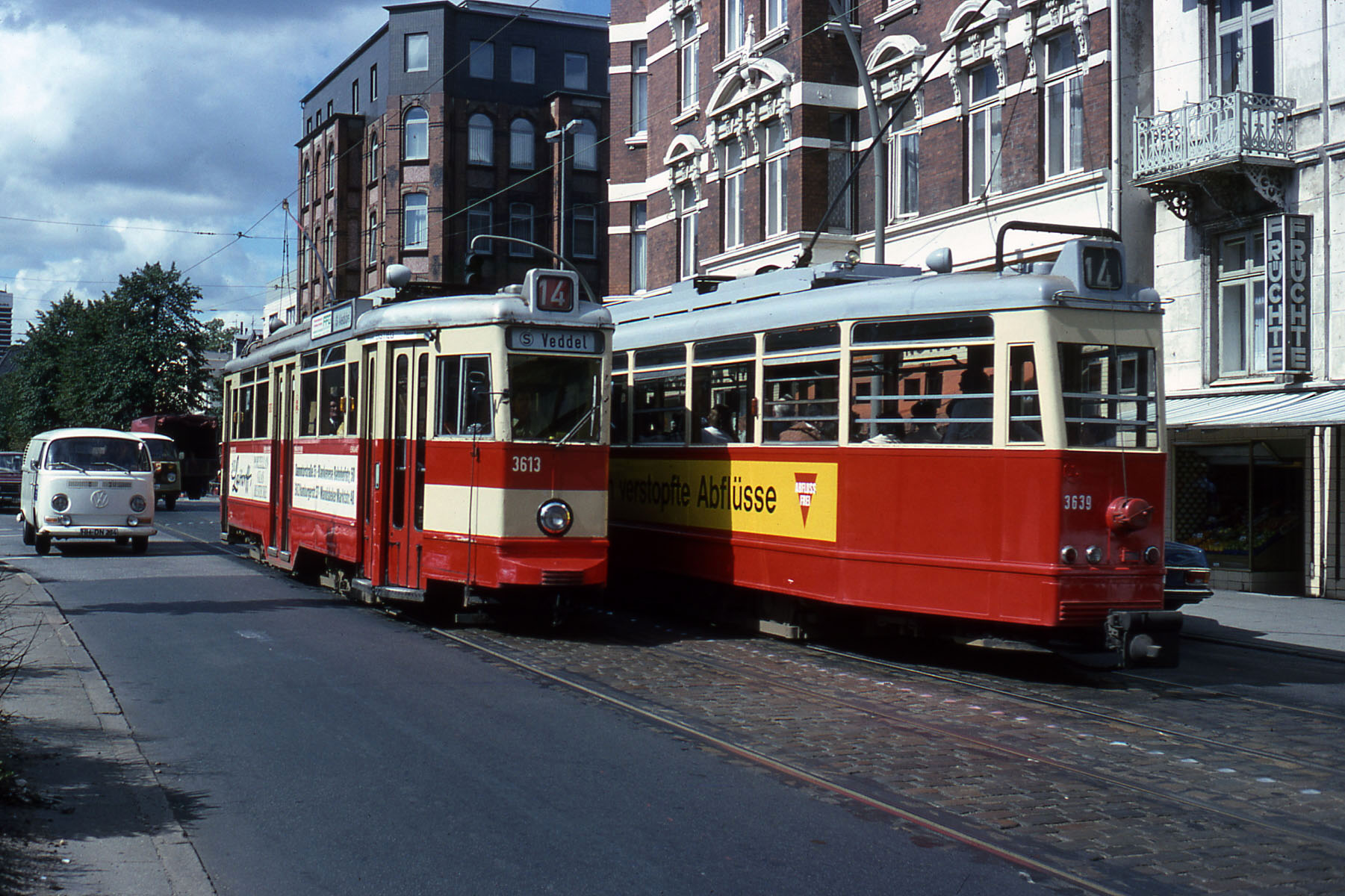 Trams in Hamburg